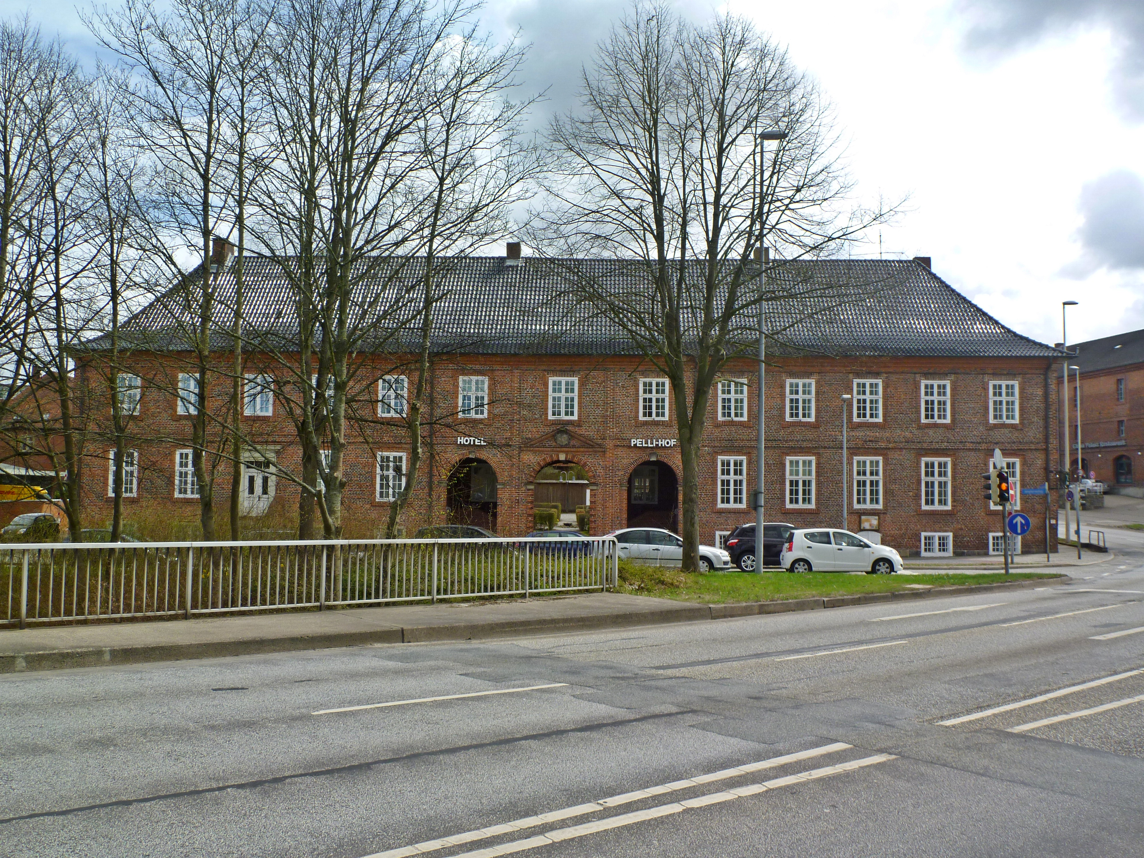 Hotel, preservation sites of historic interest in Jungfernstieg 19